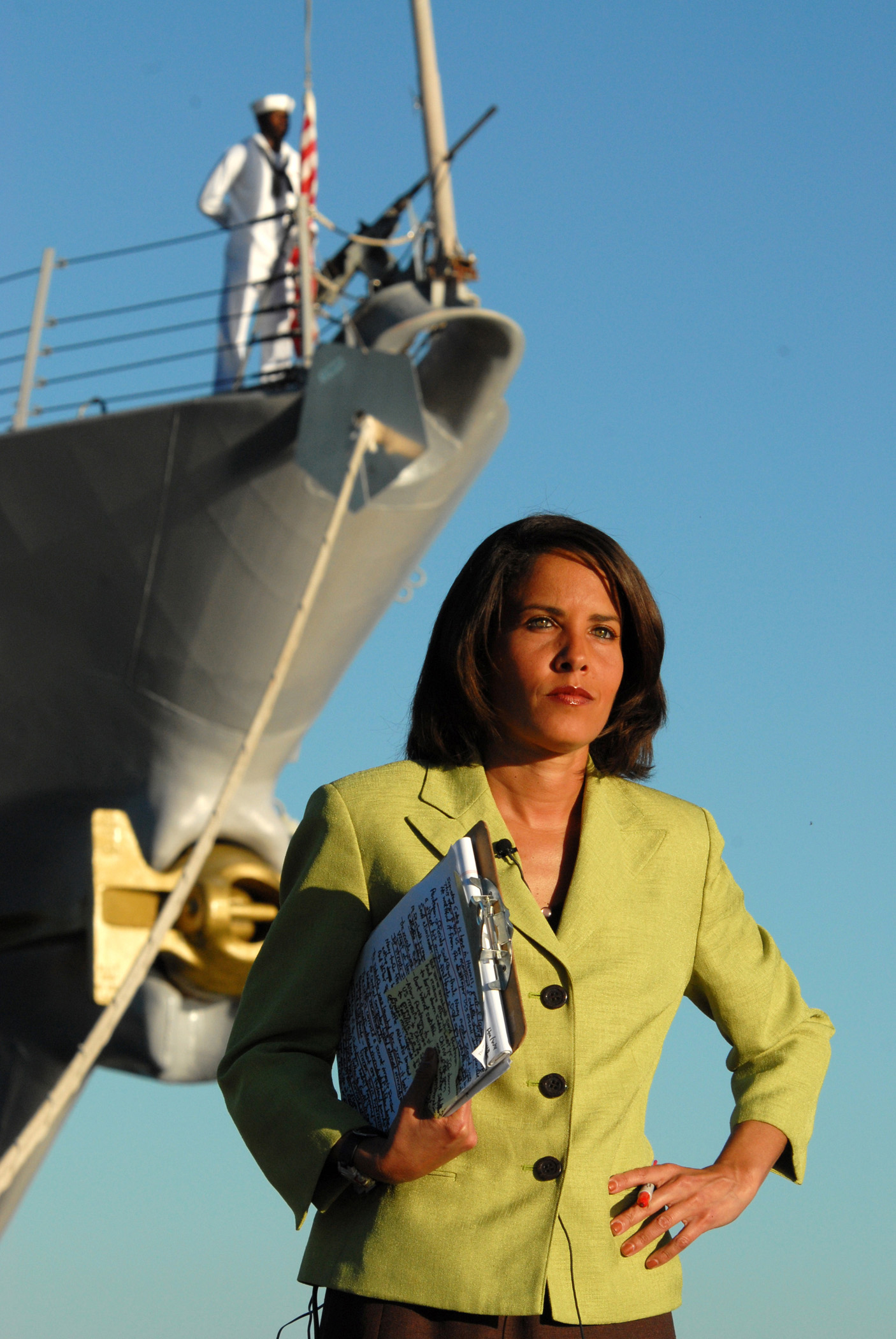 PEARL HARBOR, Hawaii (Feb. 21, 2008) A Sailor aboard the Pearl Harbor-based guided-missile destroyer USS Russell (DDG 59) waits to perform colors as CNN correspondent Suzanne Malveaux prepares to do a live broadcast from the pier of Naval Station (NAVSTA) Pearl Harbor. Secretary of Defense (SECDEF) Robert M. Gates spoke with news media pier side during the press conference after visiting the Russell. U.S. Navy photo by Mass Communication Specialist 1st Class James E. Foehl (Released)